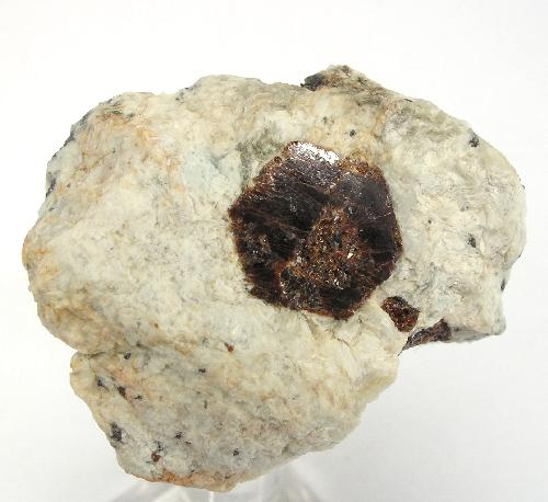 Ferronigerite-2N1S Locality: Stiepelmann Mine, Arandis, Swakopmund District, Erongo Region, Namibia (Locality at ) Size: 2.8 x 2.3 x 1.4 cm. A superb hexagonal crystal of the rare mineral Ferronigerite. This tabular crystal has a deep reddish-brown color and a superb luster. It is .9 cm face-to-face (not even corner to corner, which would be more), which is huge for Ferronigerite. And it is very nicely colored. A great example of the species. Ex. Charlie Key.